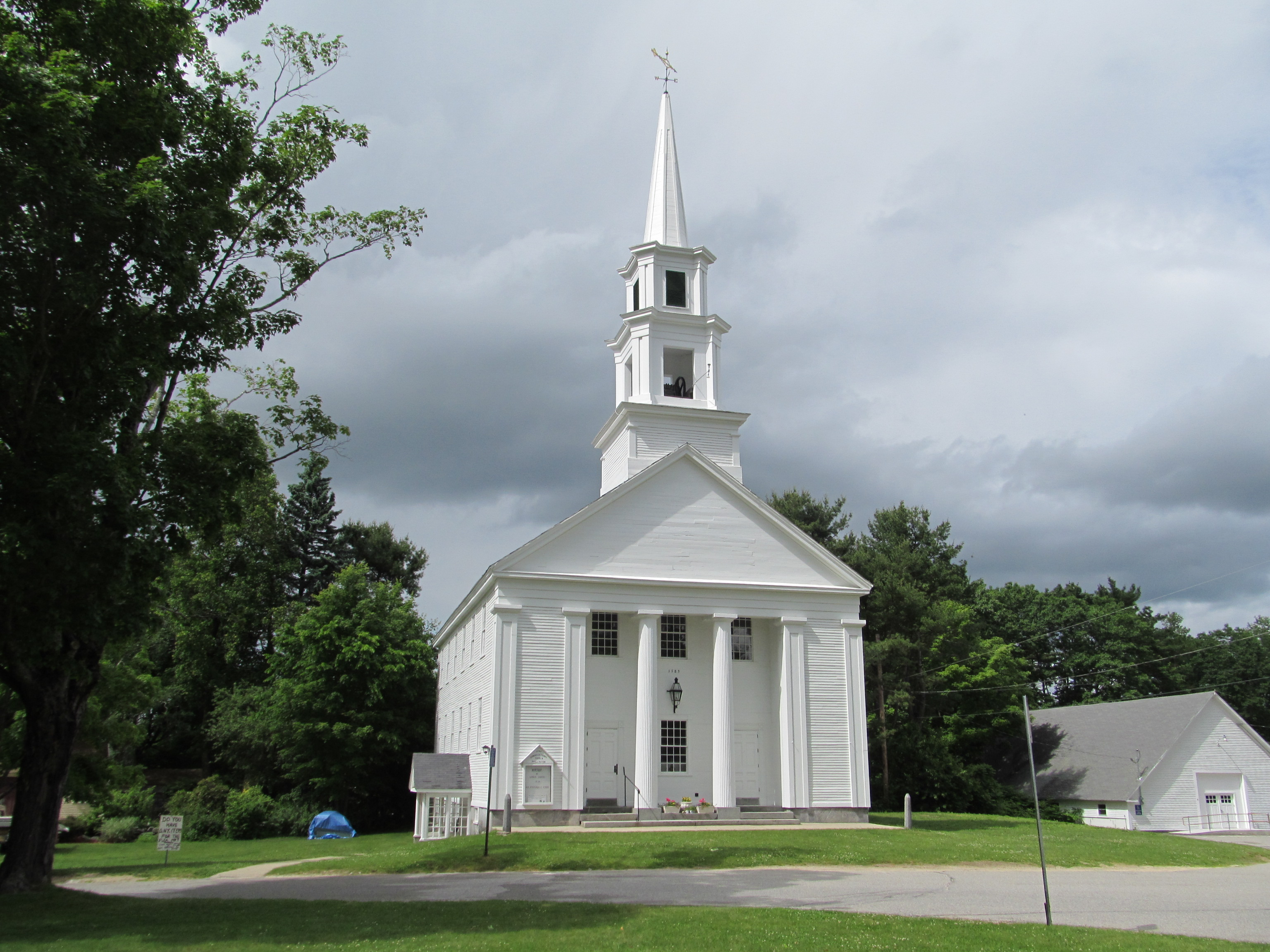 Congregational Church, Phillipston Massachusetts